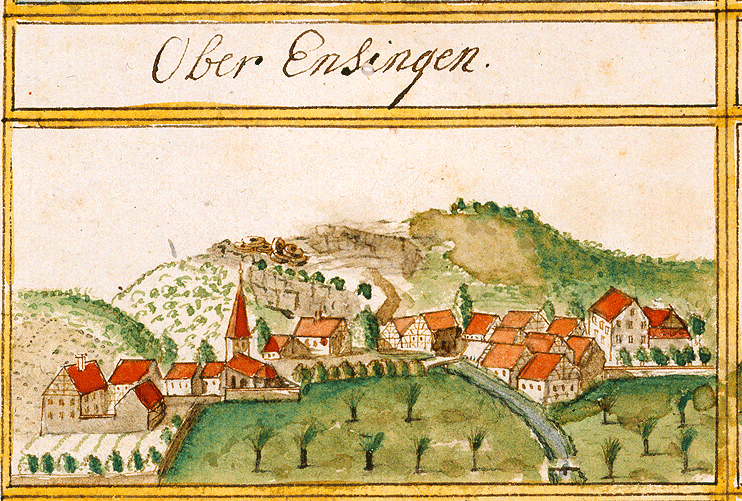 View of Oberensingen, Nürtingen, from the forest register books created by Andreas Kieser